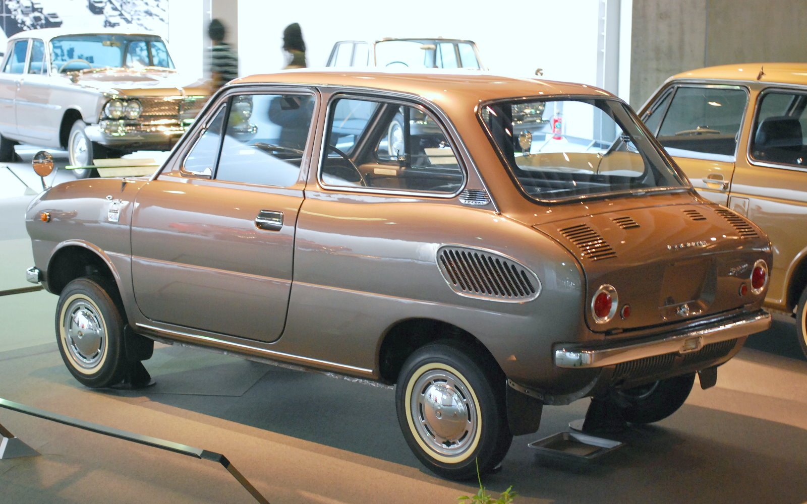 2nd generation Suzuki_Fronte_360